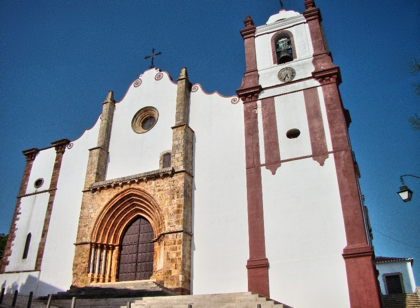 Sé de Silves